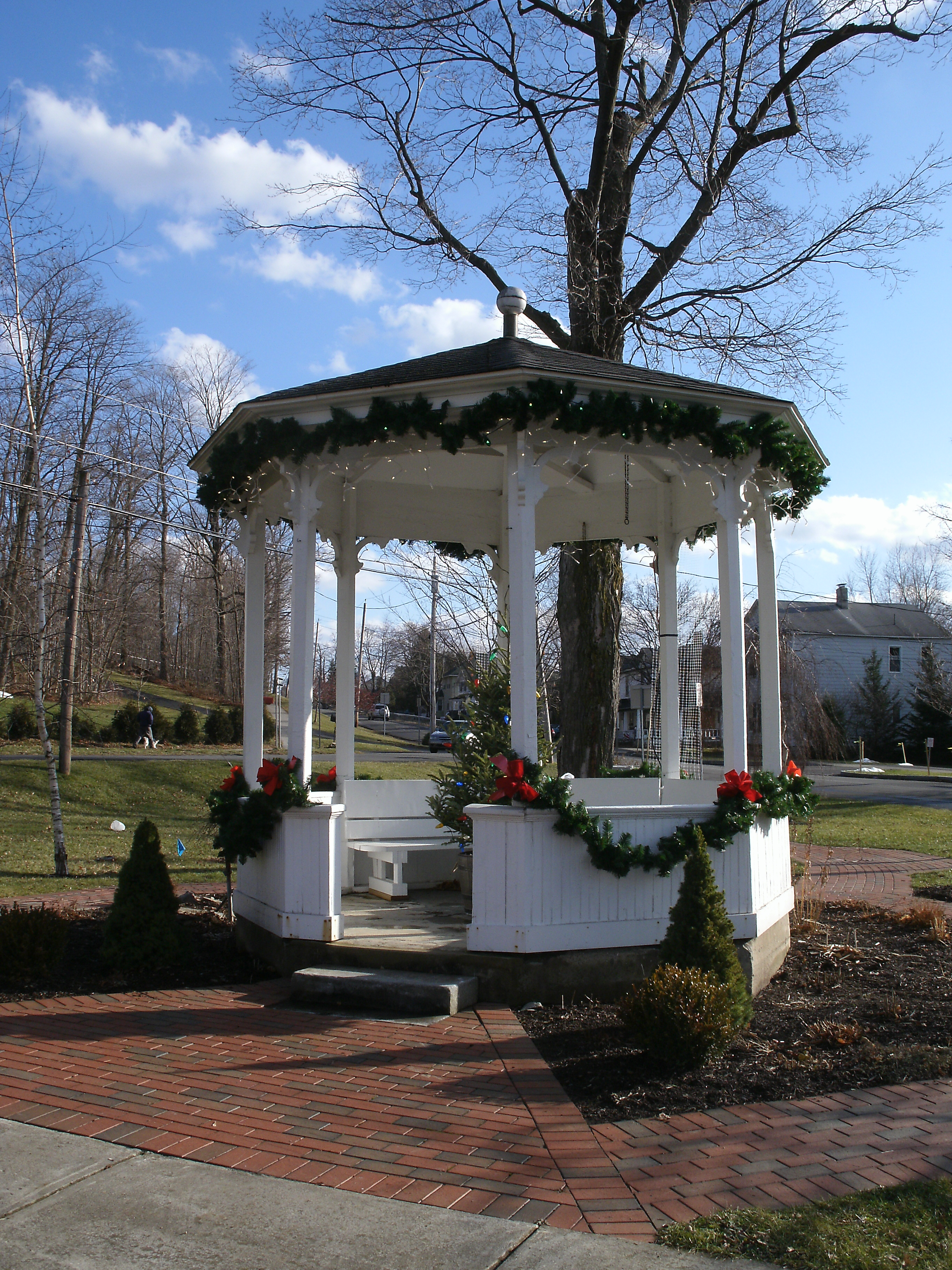 Bandshell in Academy Park, village of Manlius, New York. Bandshell is a contributing structure or object in Manlius Village Historic District.